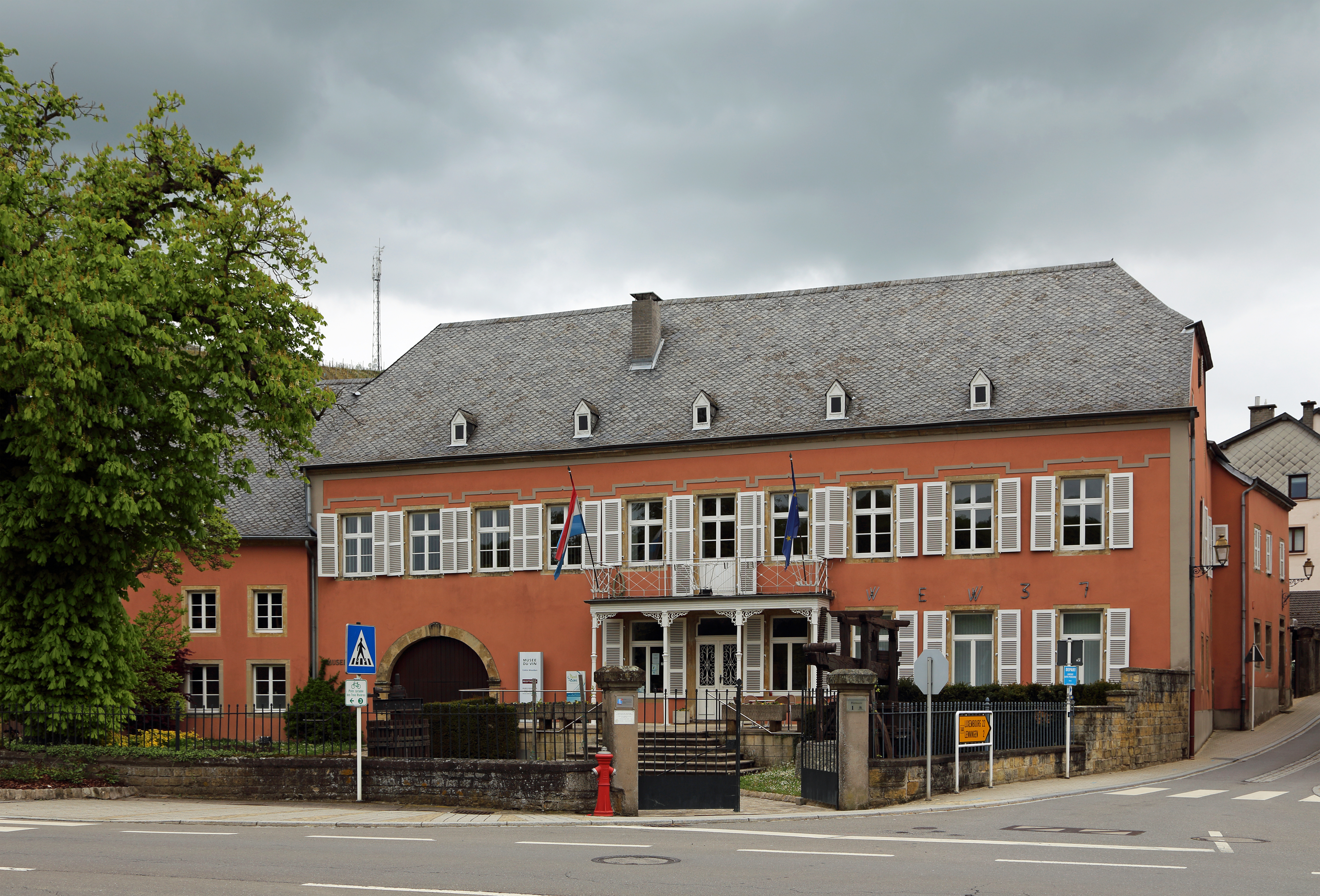 Ehnen (municipality of Wormeldange, Grand Duchy of Luxembourg): the National Wine Museum